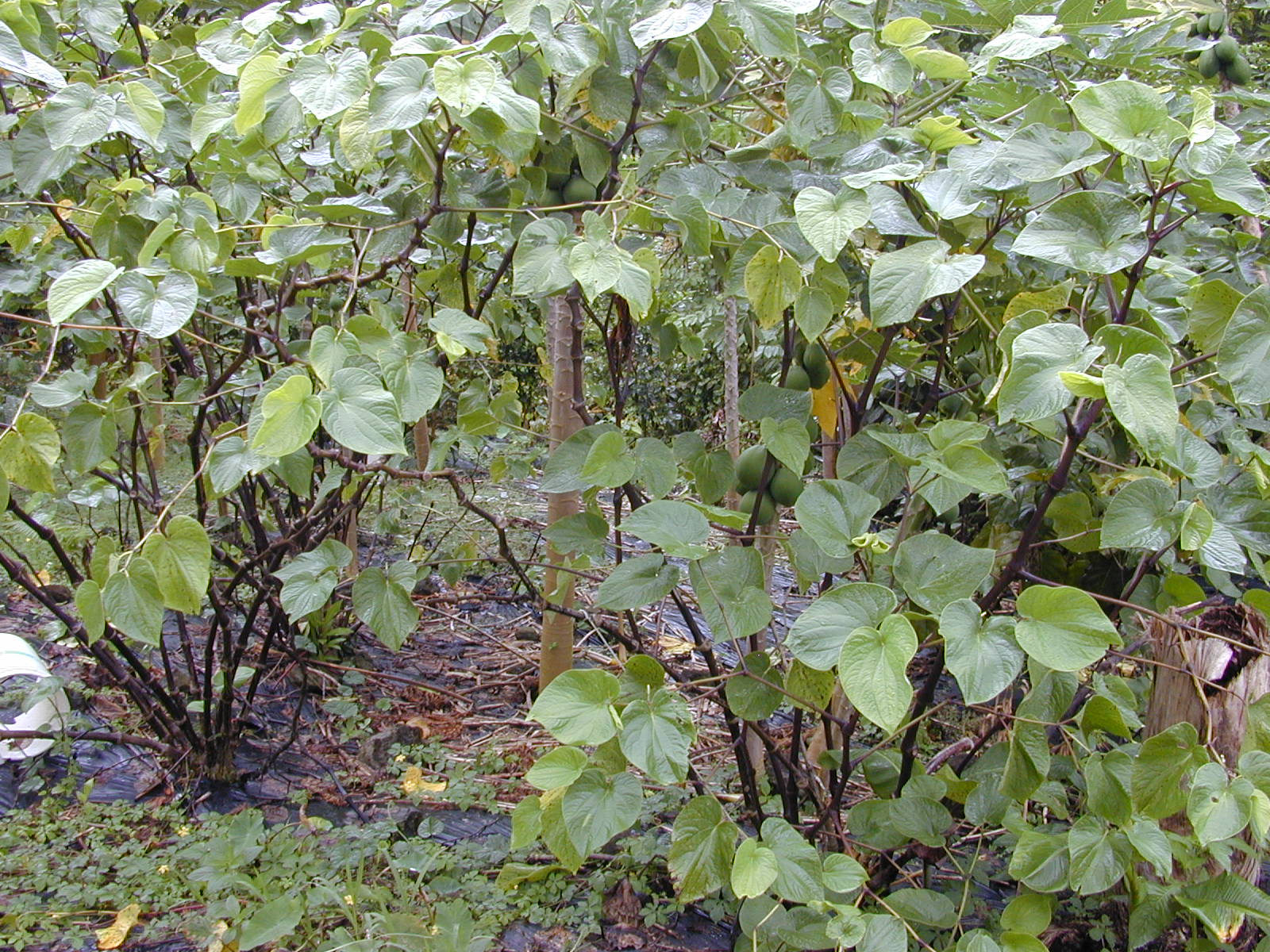 Piper methysticum (habit). Location: Maui, Nahiku